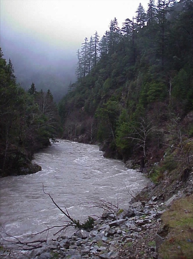 The Elk River at a high water level in 1999 in Curry County, Oregon